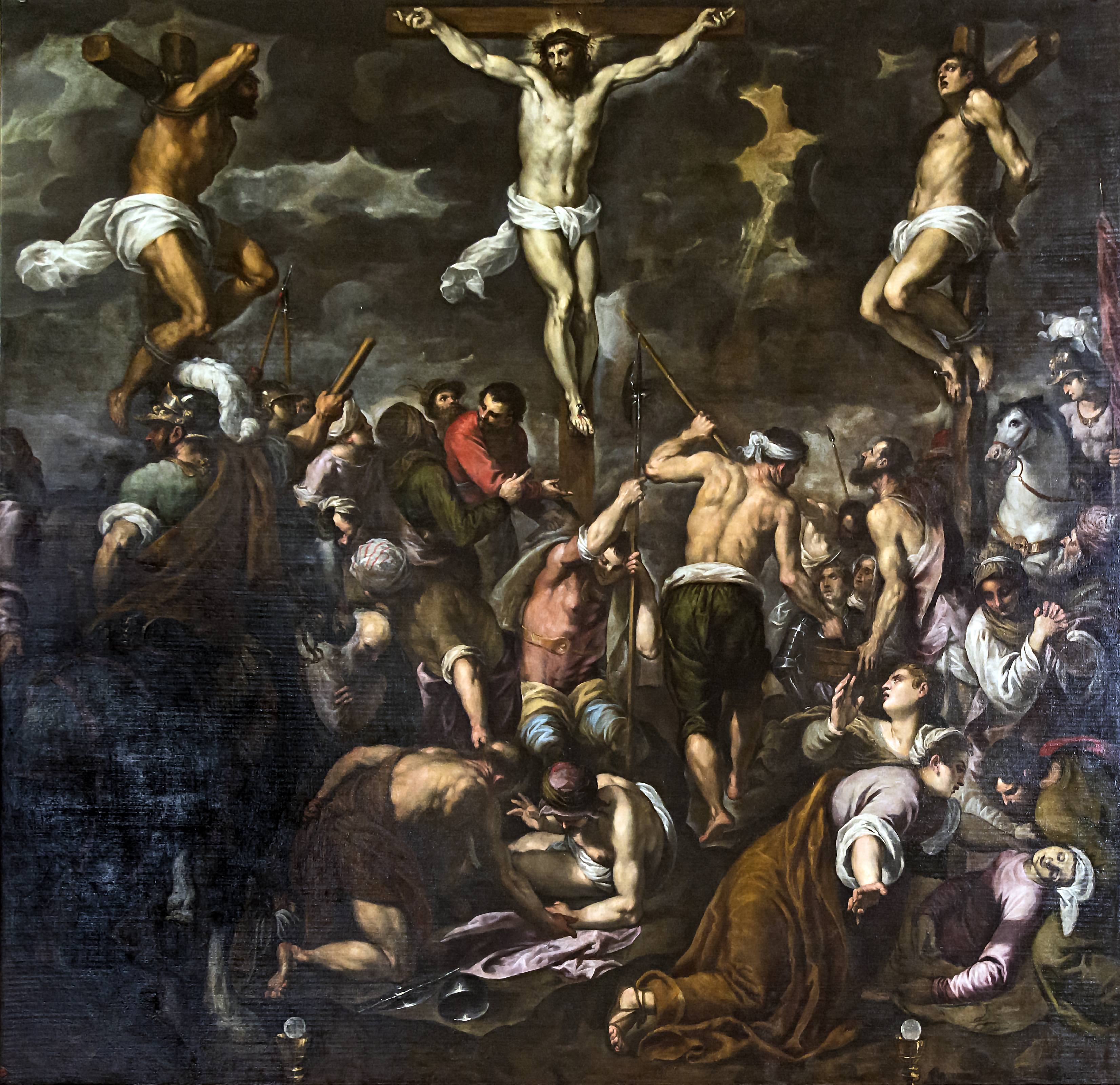 Madonna dell'Orto, Venice Interior, the Chapel Morosini. Crucifixion by Palma il Giovane. Oil on canvas, 1579. Initially in the church of Santa Ternita, now demolished.